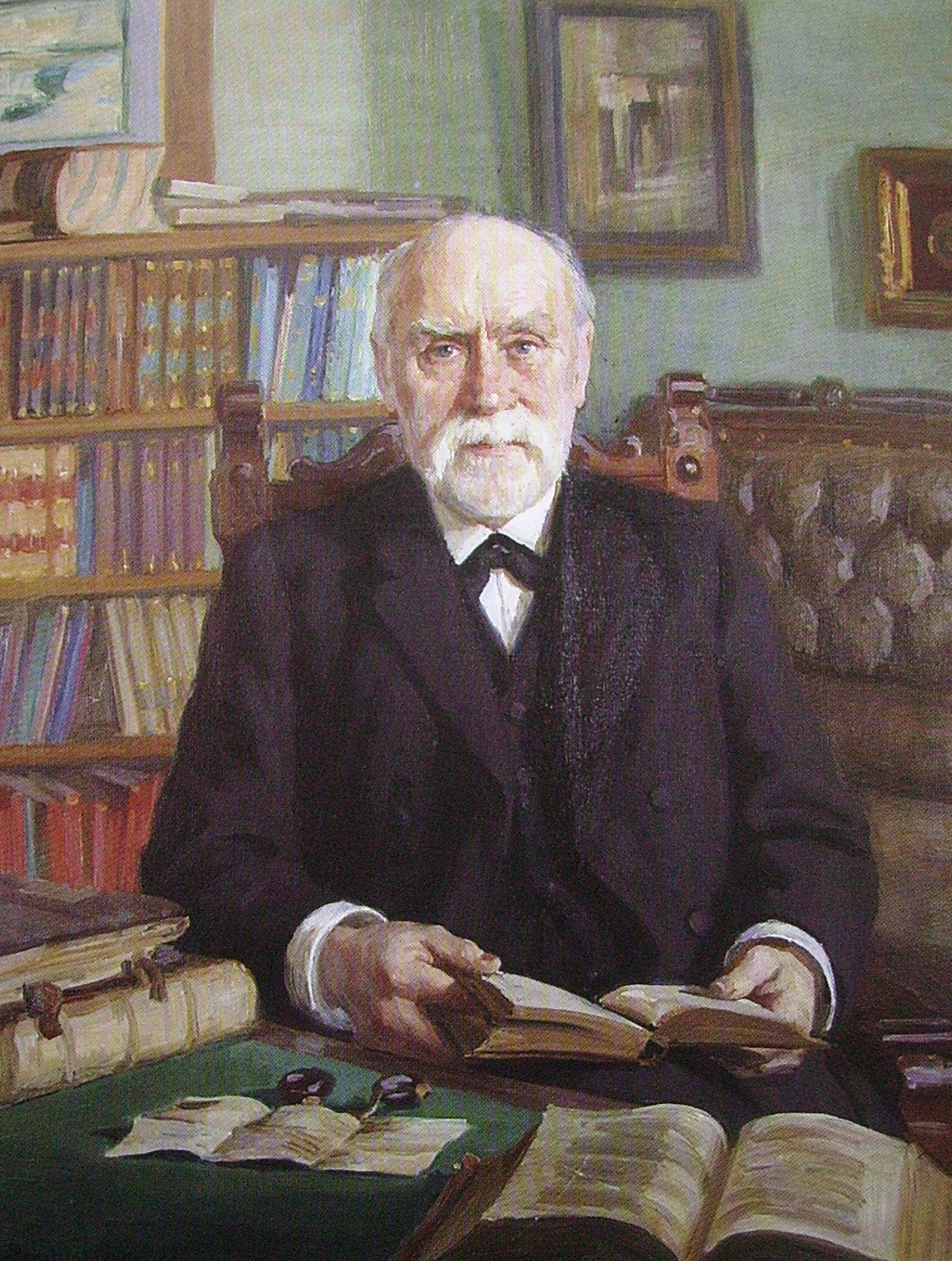 Picture of Reinhold Hausen, Finnish archivist